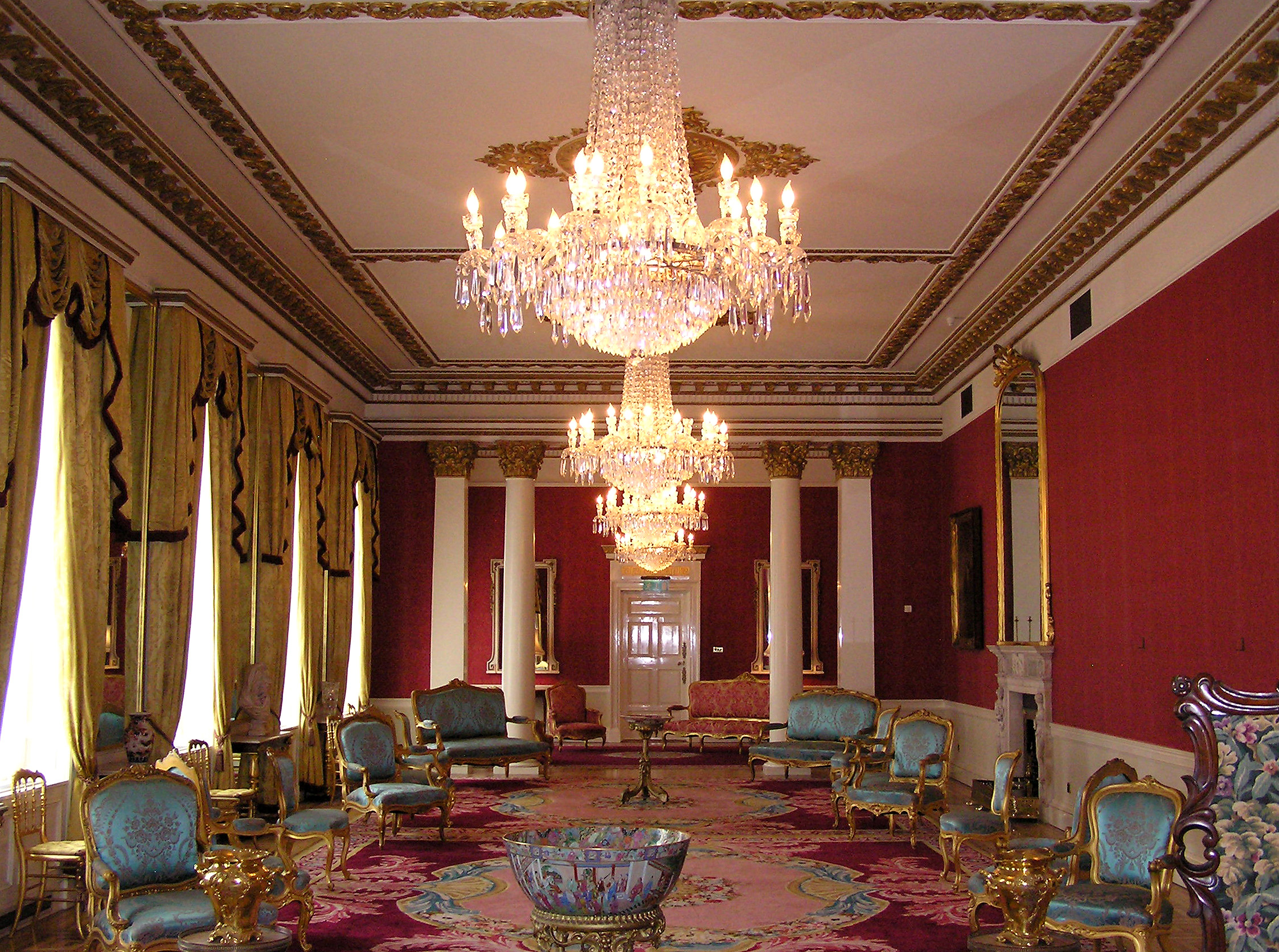 Dublin Castle (State Drawing Room), Ireland